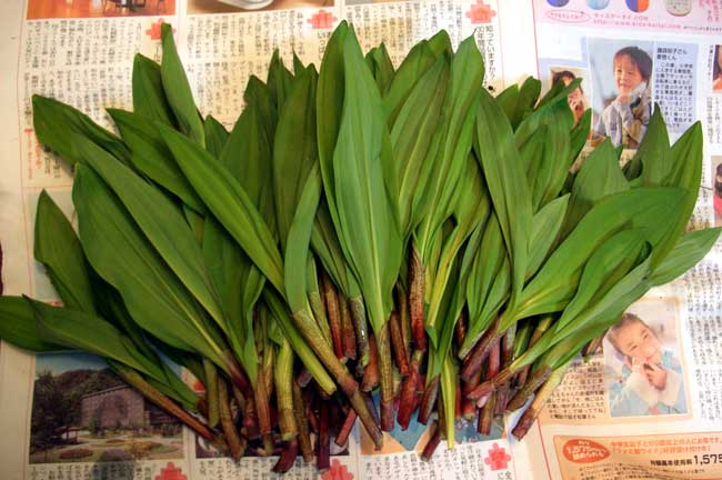 These are the Japanese wild herbs called "Gyoujya-ninniku", "Hitobiro" or "Ainu-negi" (Allium ochotense Prokh.). These wild herbs were gathered in Hokkaido, Japan. They are natural edible wild plants.